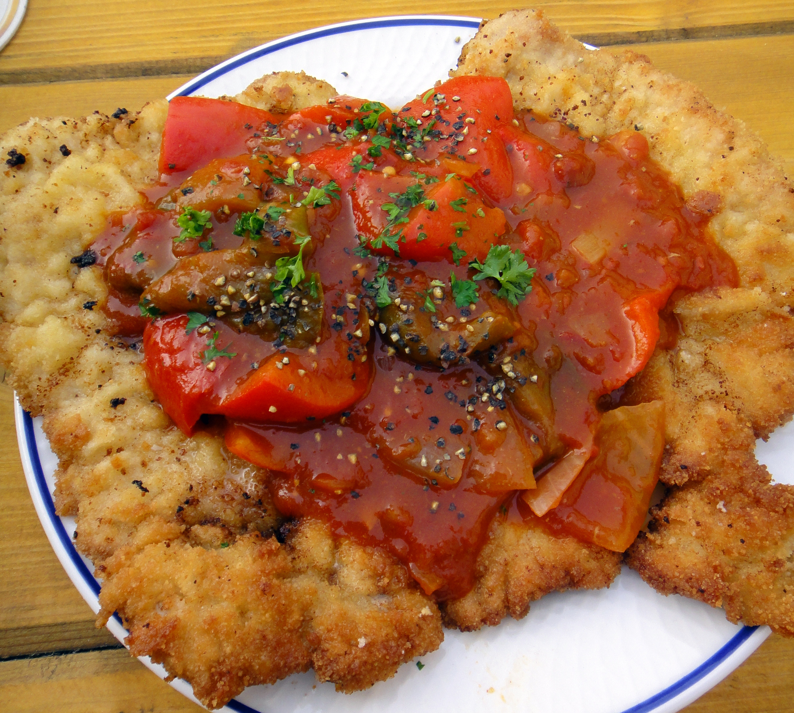 Big Schnitzel from pork with Lecsó ("Letscho") served in Brandenburg